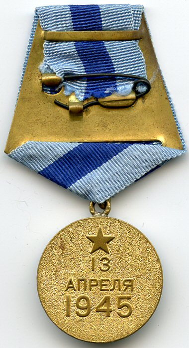 Reverse of the Soviet WW2 campaign medal "For the Capture of Vienna" (1945)